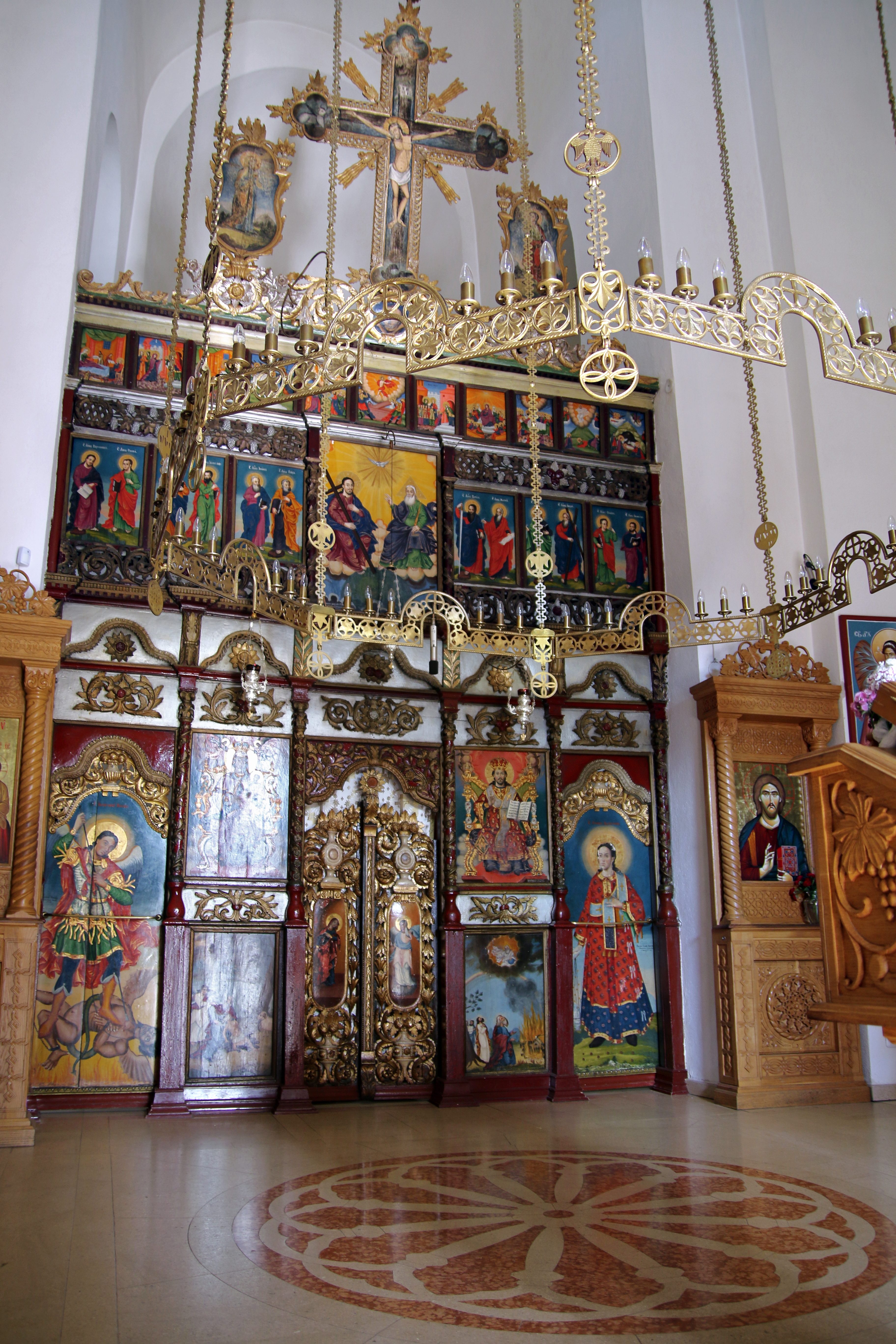 The church of St Stephen is located in the city centre of Kruševac. It was built in the 14th century within the walls of the new-built city by the Prince Lazar of Serbia (1373 - 1389). After the liberation of the Ottoman Turks in the 19th century, few amateur restorations were carried out. Thanks to the architect Pera J. Jovanović, the original appearance of the church was revived at the beginning of the 20th century. The church belongs to the first phase of the Moravian style. It has a trefoil ground-plane, and the three bays, with a dome over the middle. On the west side there is a narthex, which originally had a side aisle. Above the narthex there is a tower with a catechumen and a chapel on the first floor. The church was built in Byzantium style (built in alternate rows of cut stone and brick). The exterior is decorated with perforated rosettes and geometrical arabesque. It seems that the frescoes originally did not exist, and the church was for the first time painted in the period of 1737 - 1740 by the zograf Andra Andrejević and his associates. The wall painting is currently preserved only in fragments. The iconostasis dates back from 1844, and is probably the work of painter Živko Pavlović. It is fully preserved. Work on the restoration and conservation of architecture was carried out in 1989.